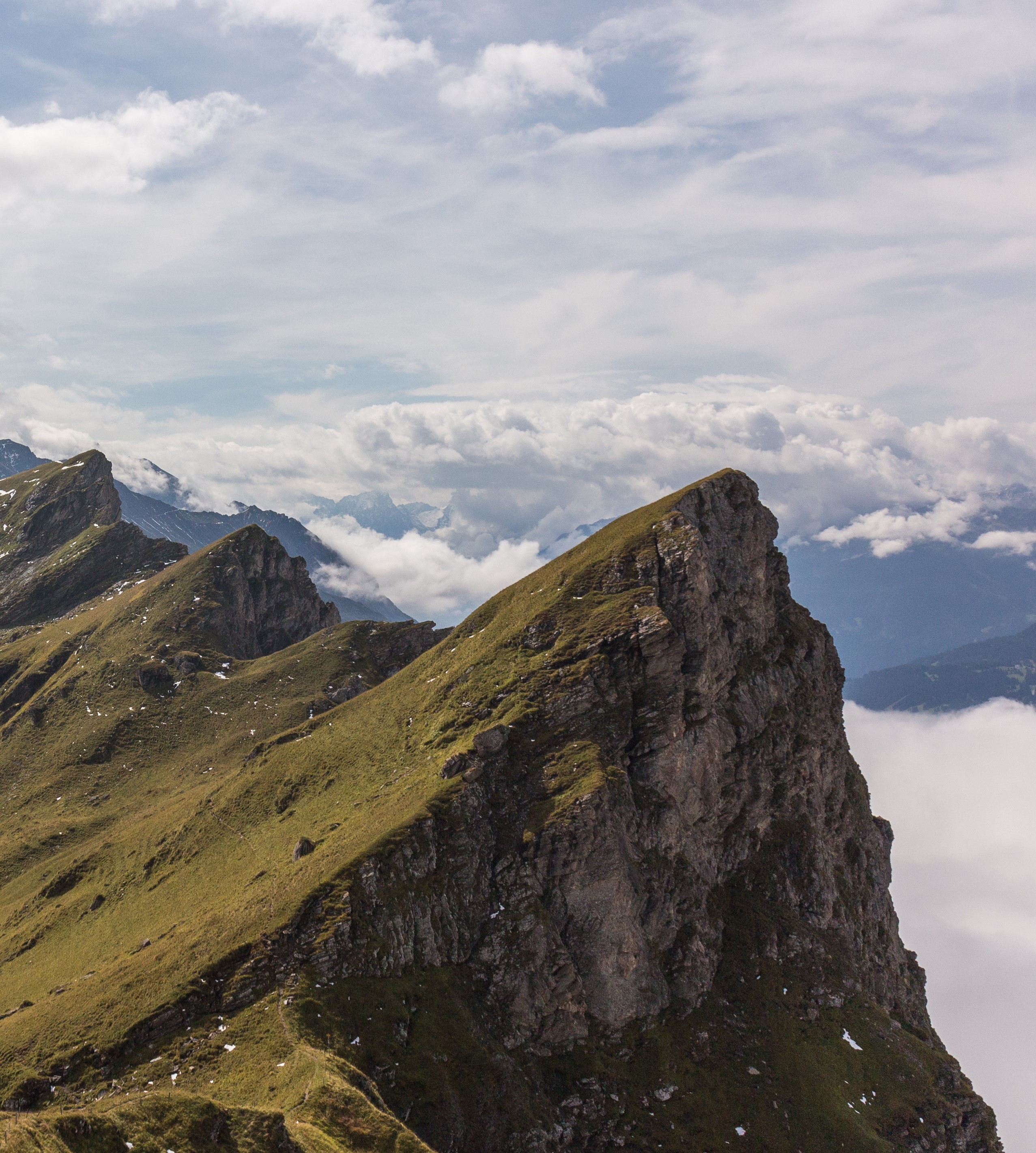 View from the ridge to Gürgaletsch (2560 meters) on the Hüenerchöpf in the east.